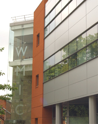 Exterior photograph of the WMIC building